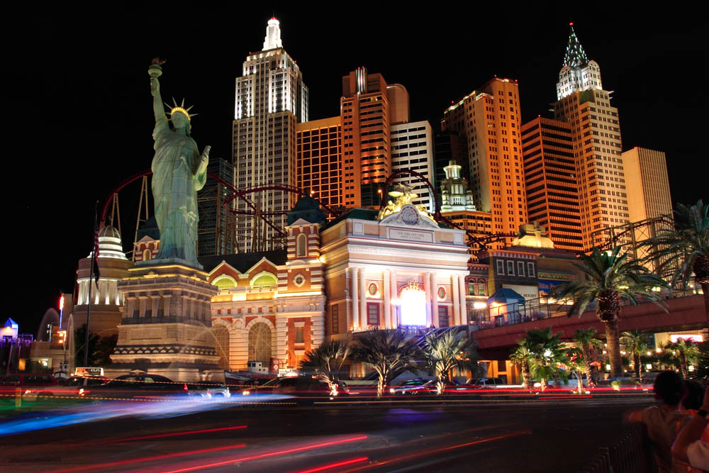 Traffic flying by the New York, New York Casino on the Strip.